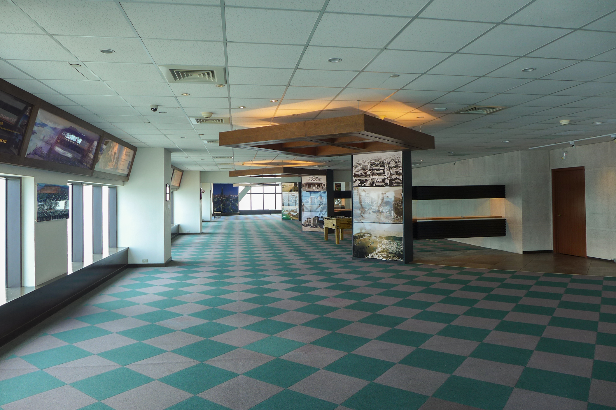 Tuntex Sky Tower 74F Observatory deck